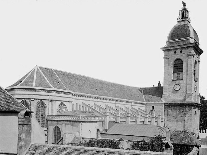 South facade of Besançon Cathedral, before 1893.